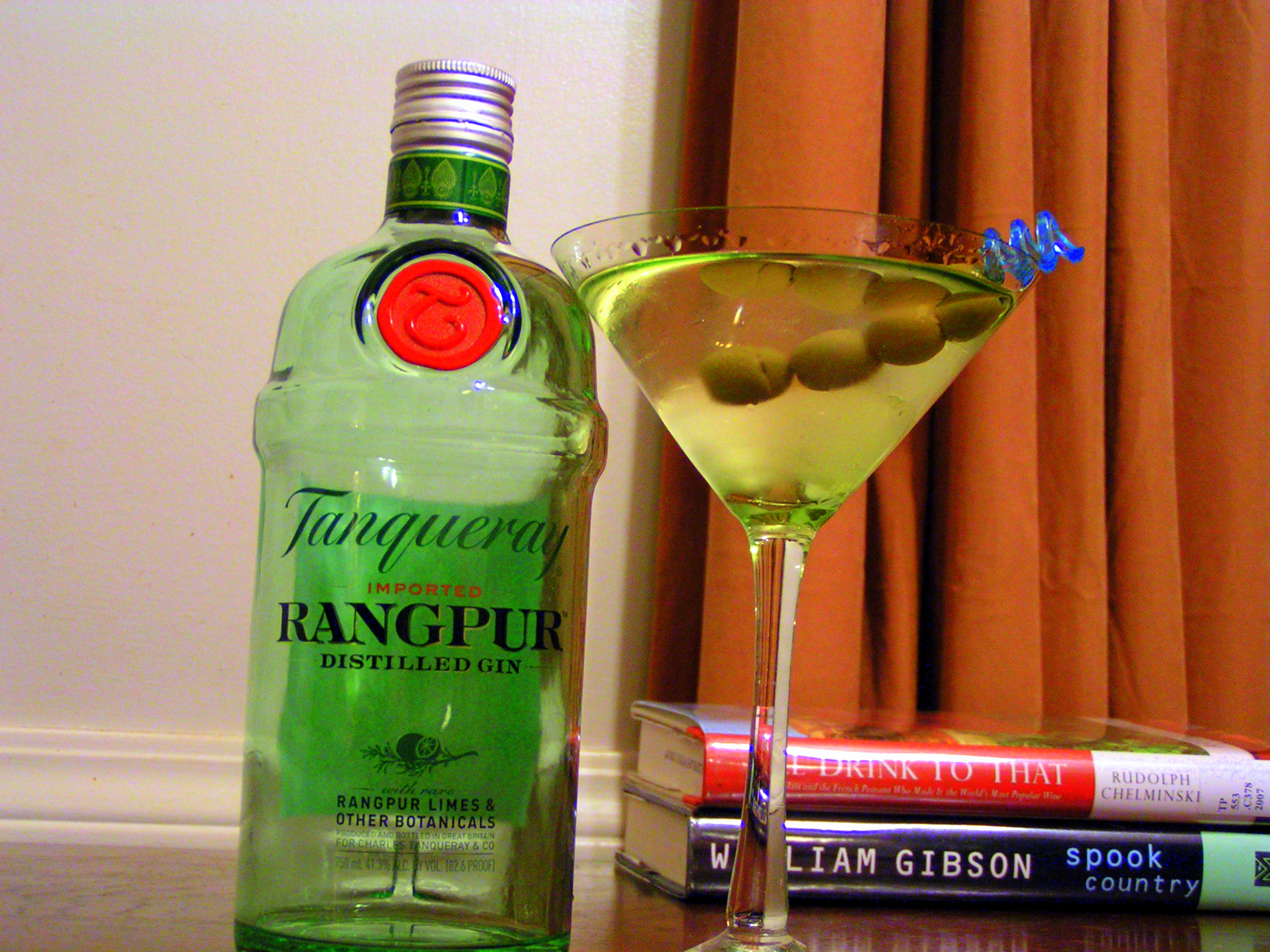 An interesting gin from Tanqueray, Rangpur is a citrus fruit and is added during final distillation. I thought it was a bit acidic at first, but it mellows out a bit and makes a fine martini. (the bottle's empty here, can't have been all that bad.) Made with Rangpur lime, Citrus x limonia